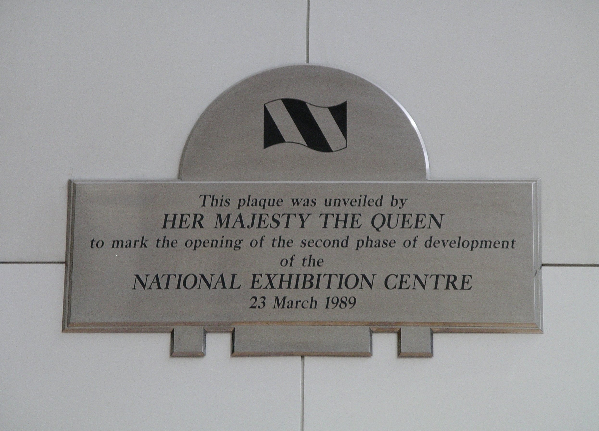 photo of the plaque that commemorates the opening of the expansion of the NEC, West Midlands, England